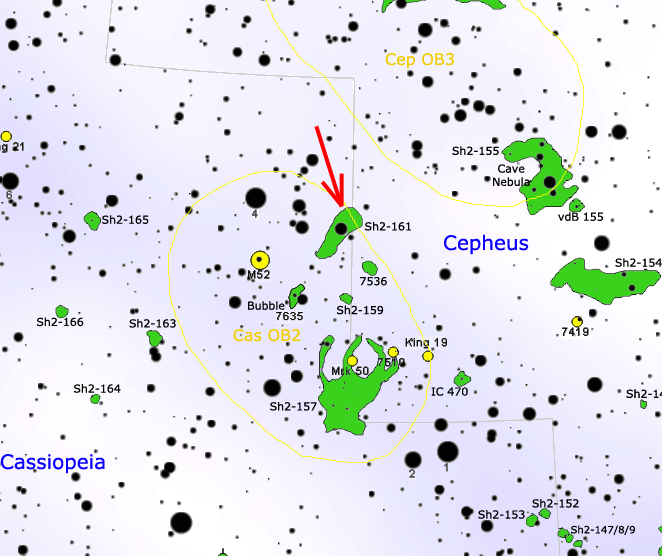 Map of Cassiopeia OB2 and evidenced Sh2-161